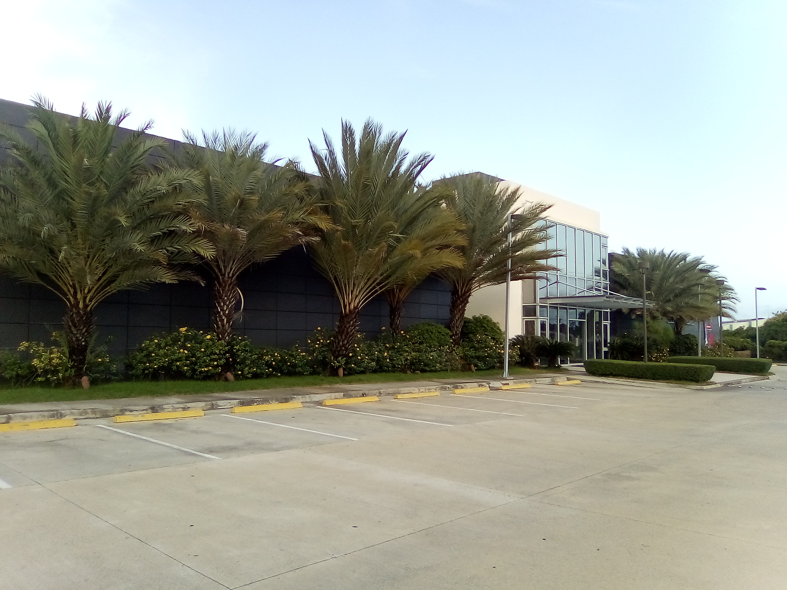 Perelló Cultural Center